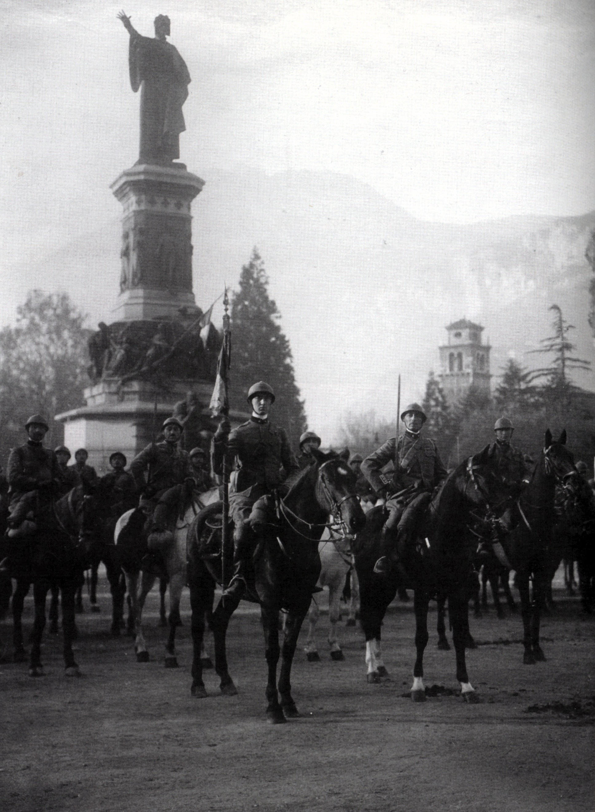 World War 1 - Italian Army: Battle of Vittorio Veneto - The 14th Cavalleggeri di Alessandria Cavalry Regiment has reached Trento (November 1918)